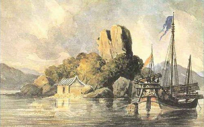 Hoi Sham Island in 1840, it was an island near To Kwa Wan, at the east side of Kowloon Peninsula. The island was now reclaimed and connected to the mainland of Kowloon.